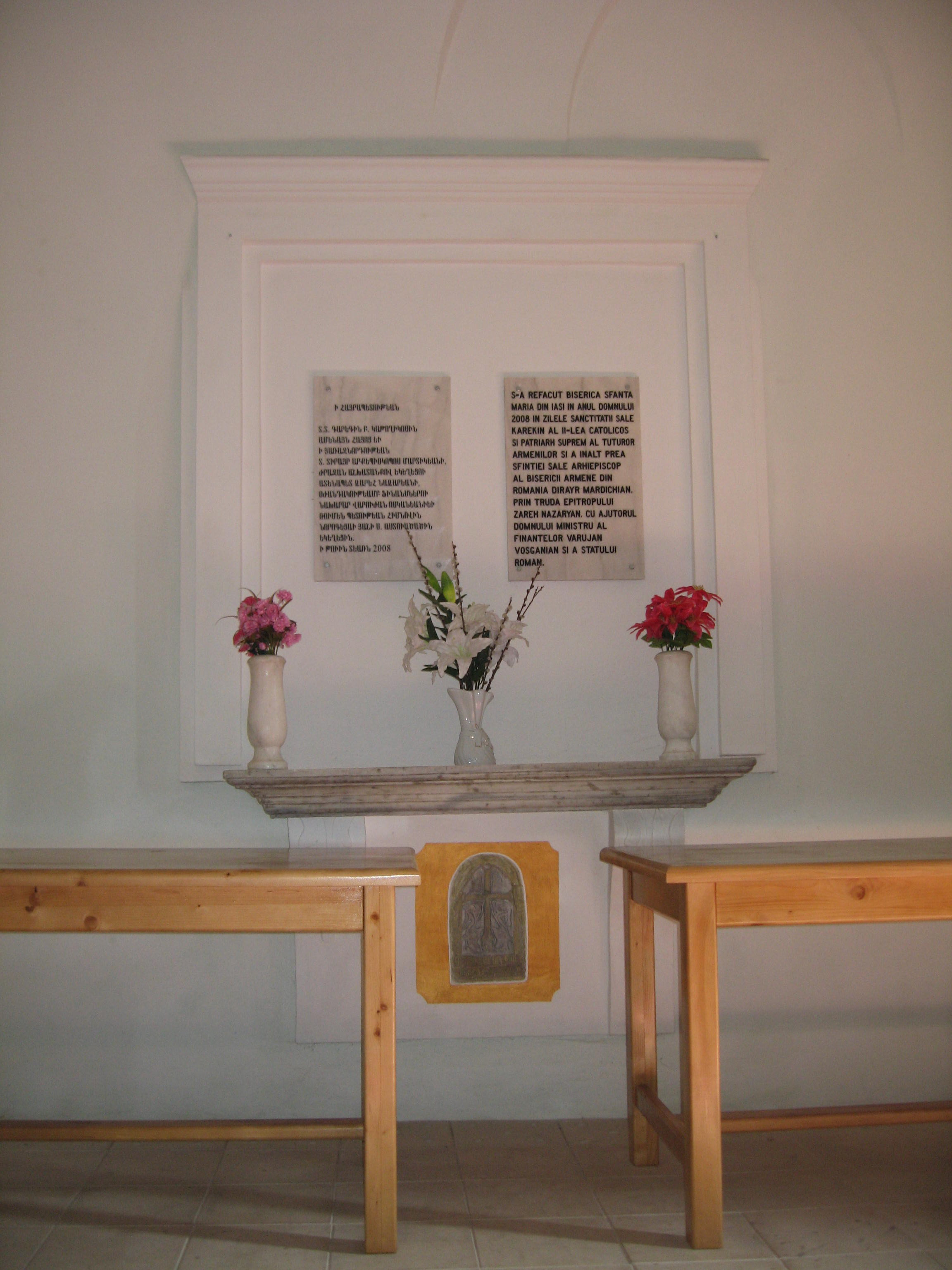 Armenian church in Iași